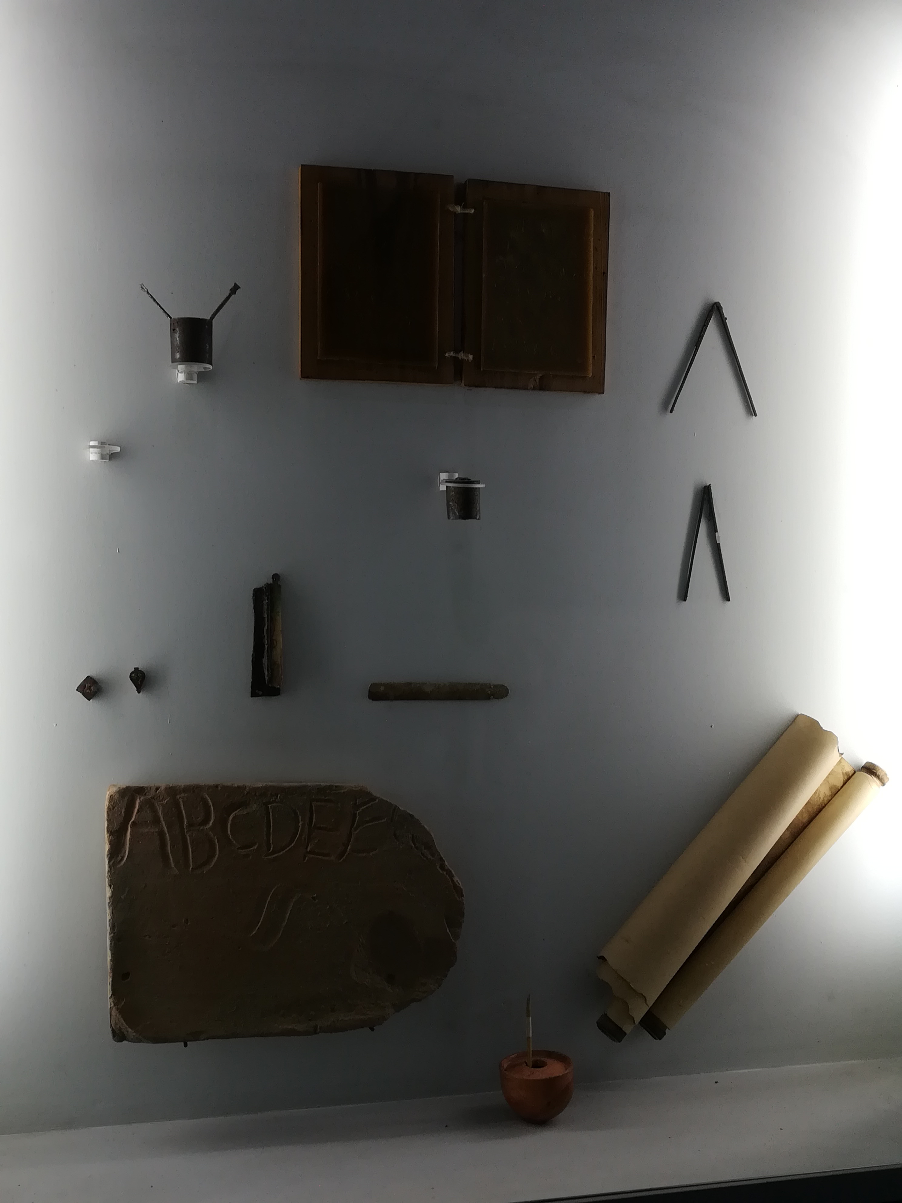 School supplies in the schools od Ancient Rome. The picture shows a writing table, a stylus, a pestle and other items thatwereused in the teaching. It is located in the Nacional museum in Pozarevac.